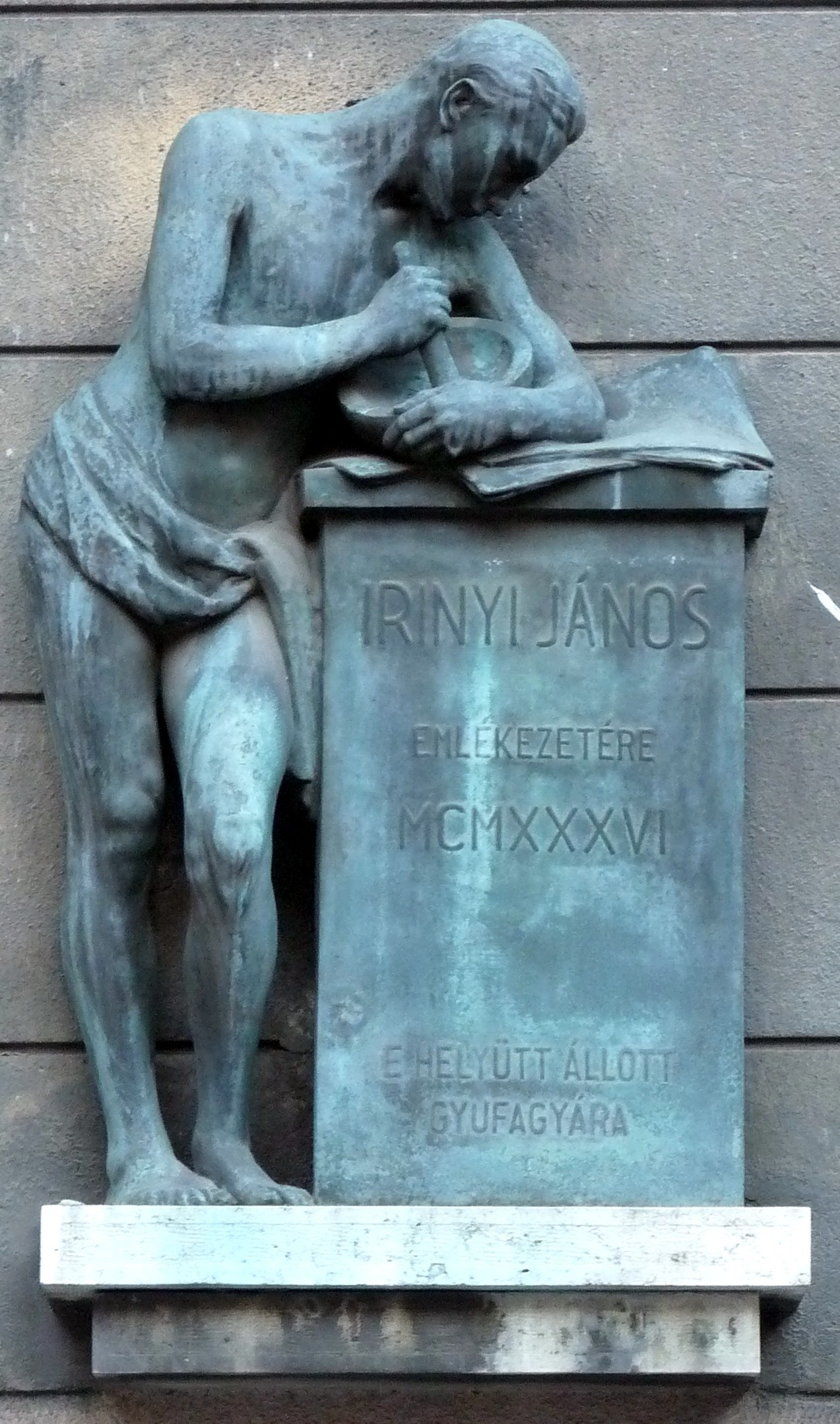 János Irinyi commemorative plaque with relief in Budapest District VIII, Mikszáth Square No 1. The bronze relief was created by János Horvay.